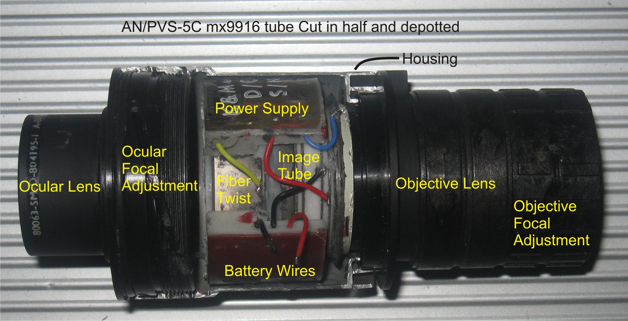 Image of the AN/PVS-5C Night Vision Device that was cut in half and depotted. Shows the functional components of a night vision device. (David Kitson, Personal Collection, Uploaded, Available for free use with attribution, uploaded to provide an "inside" image of a Night Vision Device. )